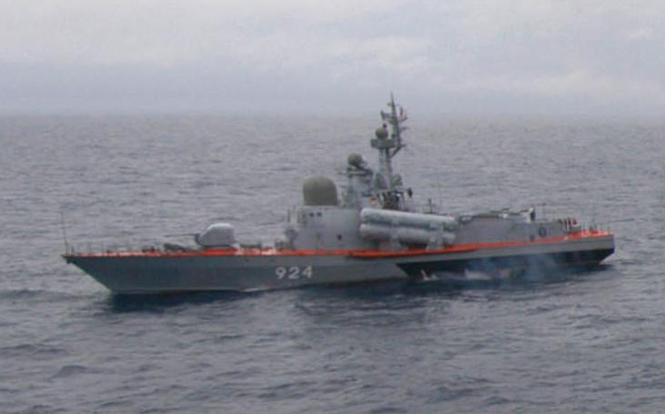 Seaman Ronald Prince, of Lavonia G.A., stands starboard side bridge watch as a Russian fast attack craft prepares to pull alongside the guided missile cruiser USS Cowpens (CG 63). Cowpens is currently underway preparing multinational exercises between ships of the U.S., Russian, and United Kingdom naval forces.